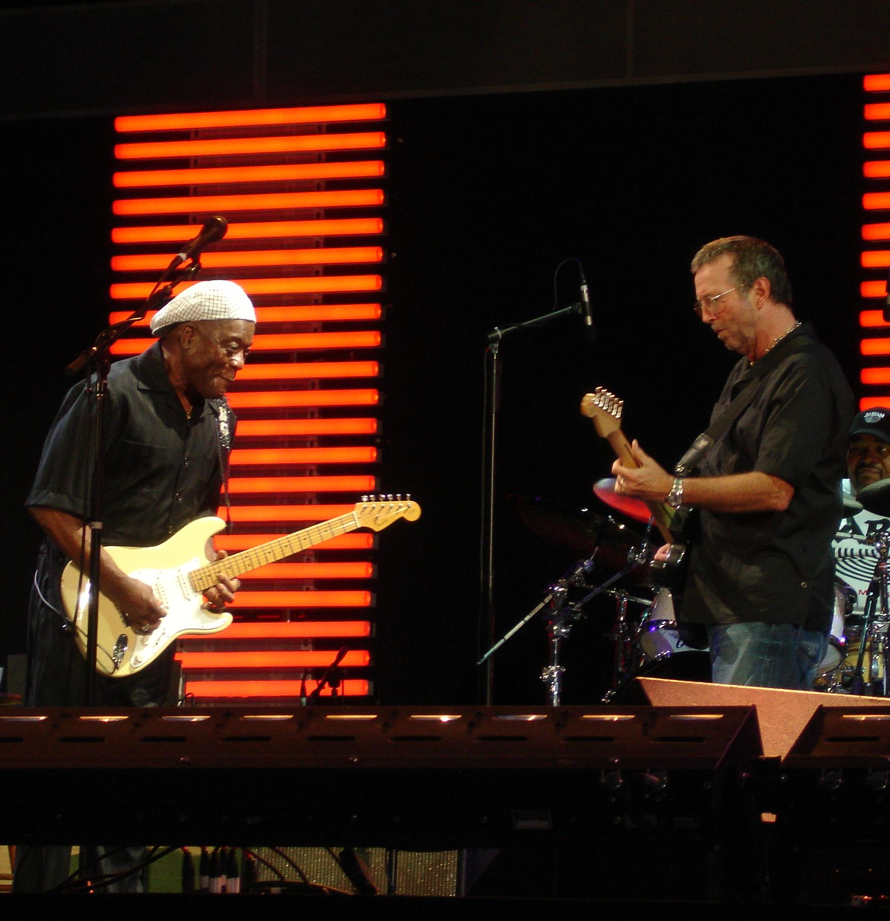 Buddy Guy and Eric Clapton performing at the Crossroads Music Festival in 2007